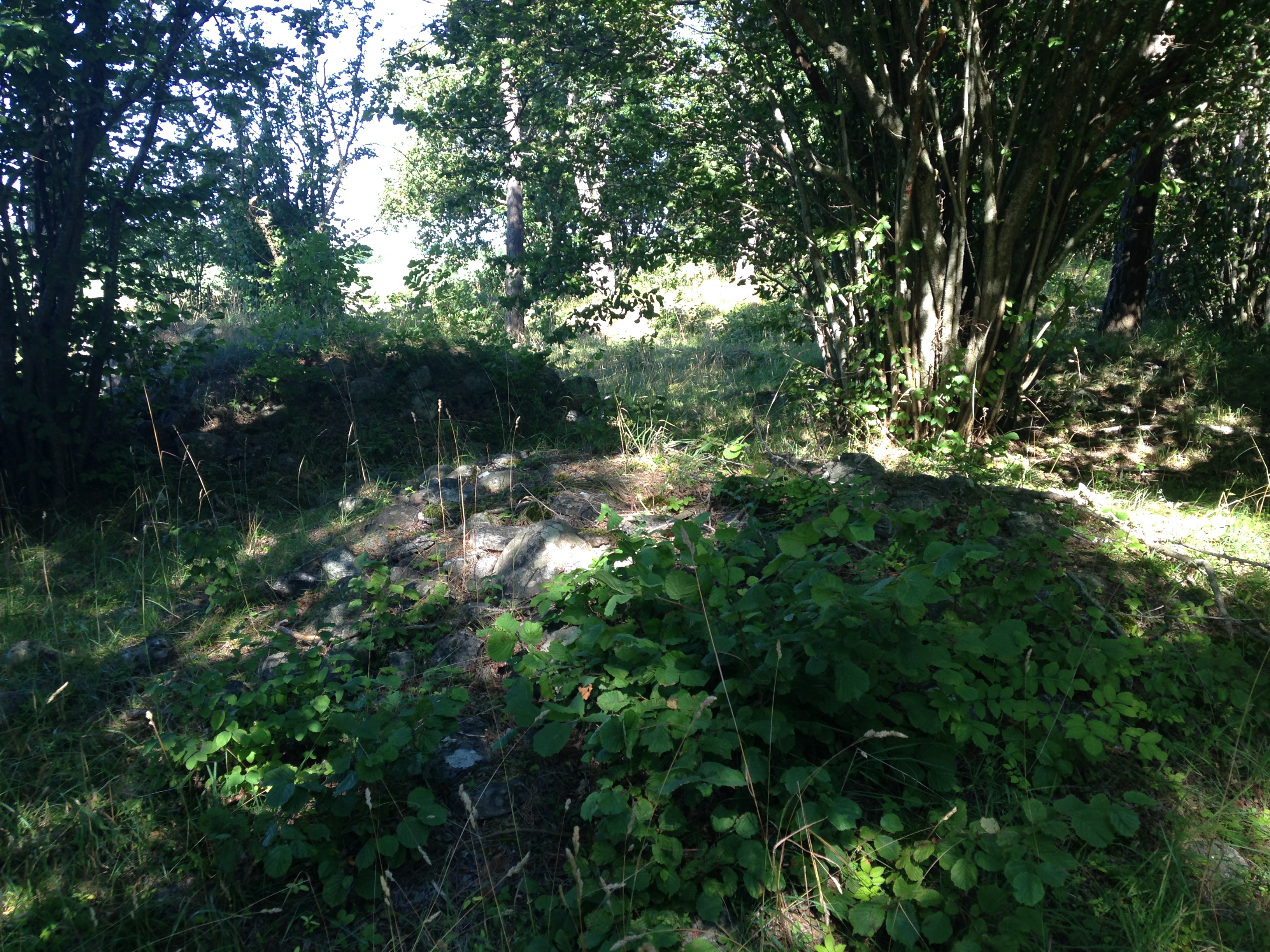 Grave field in Lilla Ihre, Gotland.